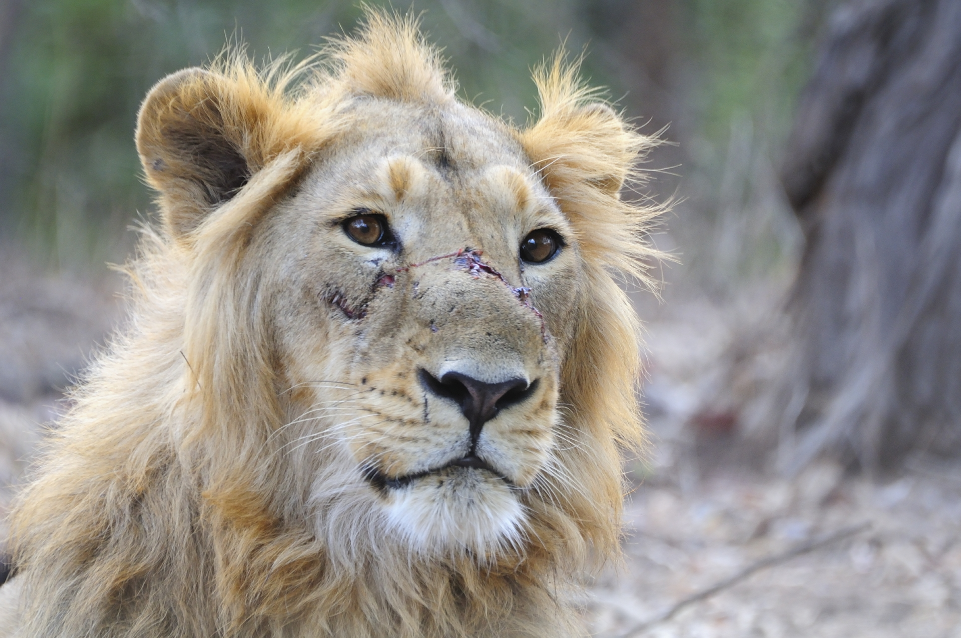 Male Asiatic Lion spotted at the Gir Sanctuary and National Park. Driving through the forest not far from the exit this male lion just popped out of the bushes and accompanied our vehicle for about a kilometer. Impressive, but obviously after a recent fight. The scar was apparently quite recent.